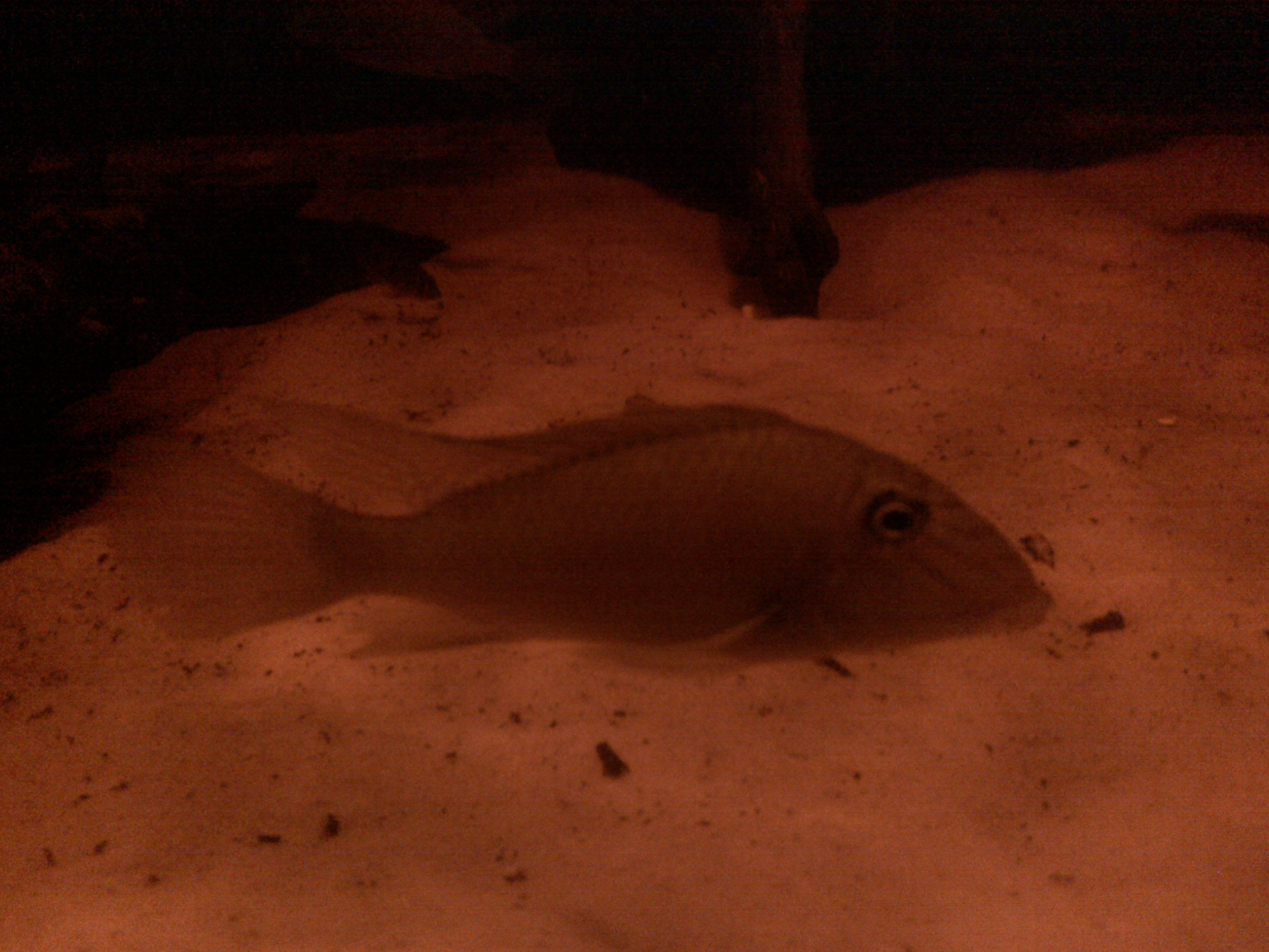 Satanoperca jurupari. London Zoo.